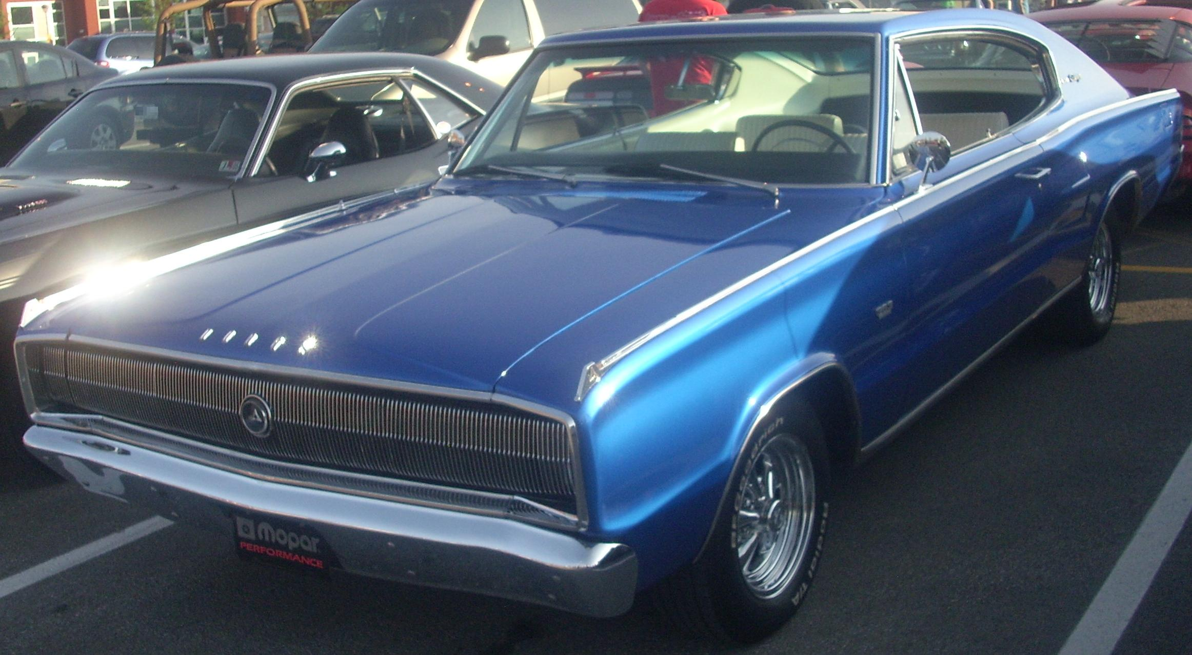 Dodge Charger photographed in Laval, Quebec, Canada at Centropolis Laval.